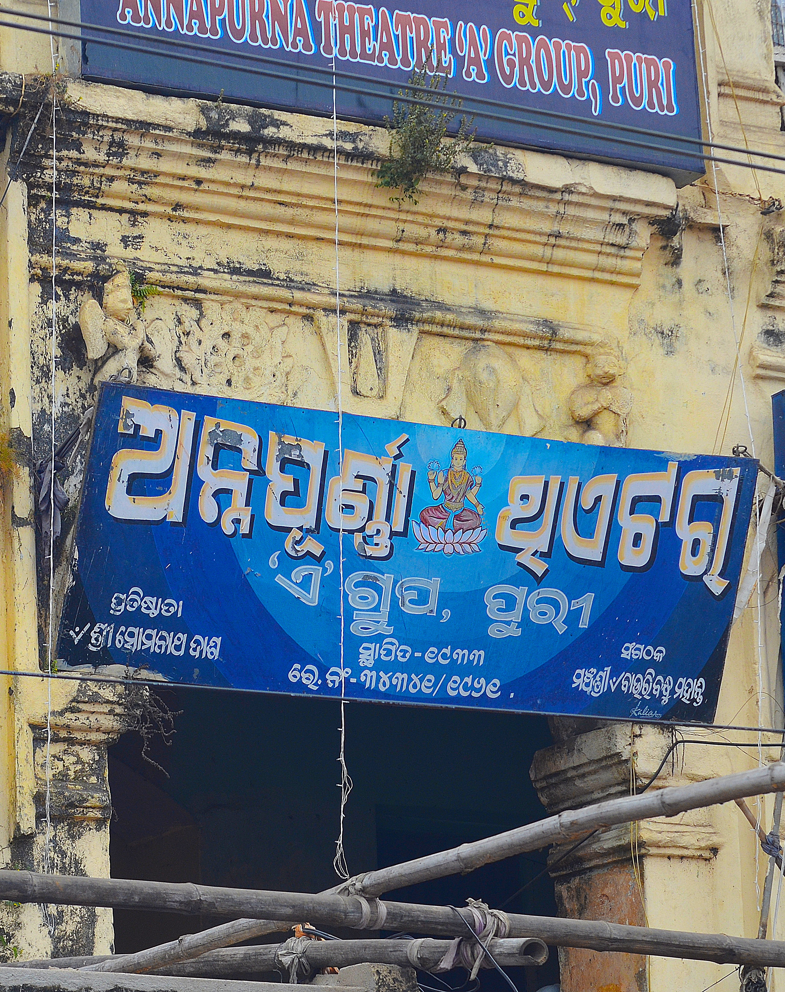 Annapurna Theatre, one of the pioneers in modern Odia theatre. This board is attached to the door on the Badadanda, actually belonging to the ancient Uttara Parswa Matha.